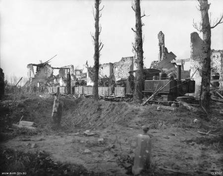 Western Front: Western Front (Belgium), Ypres Area, Ypres. Drawing ballast in the vicinity of Ypres with an American 'Cooke' engine, No. 1217, manned by personnel of the 17th Australian Light Railway Operating Company. Note the bomb and shrapnel-damaged buildings and trees.